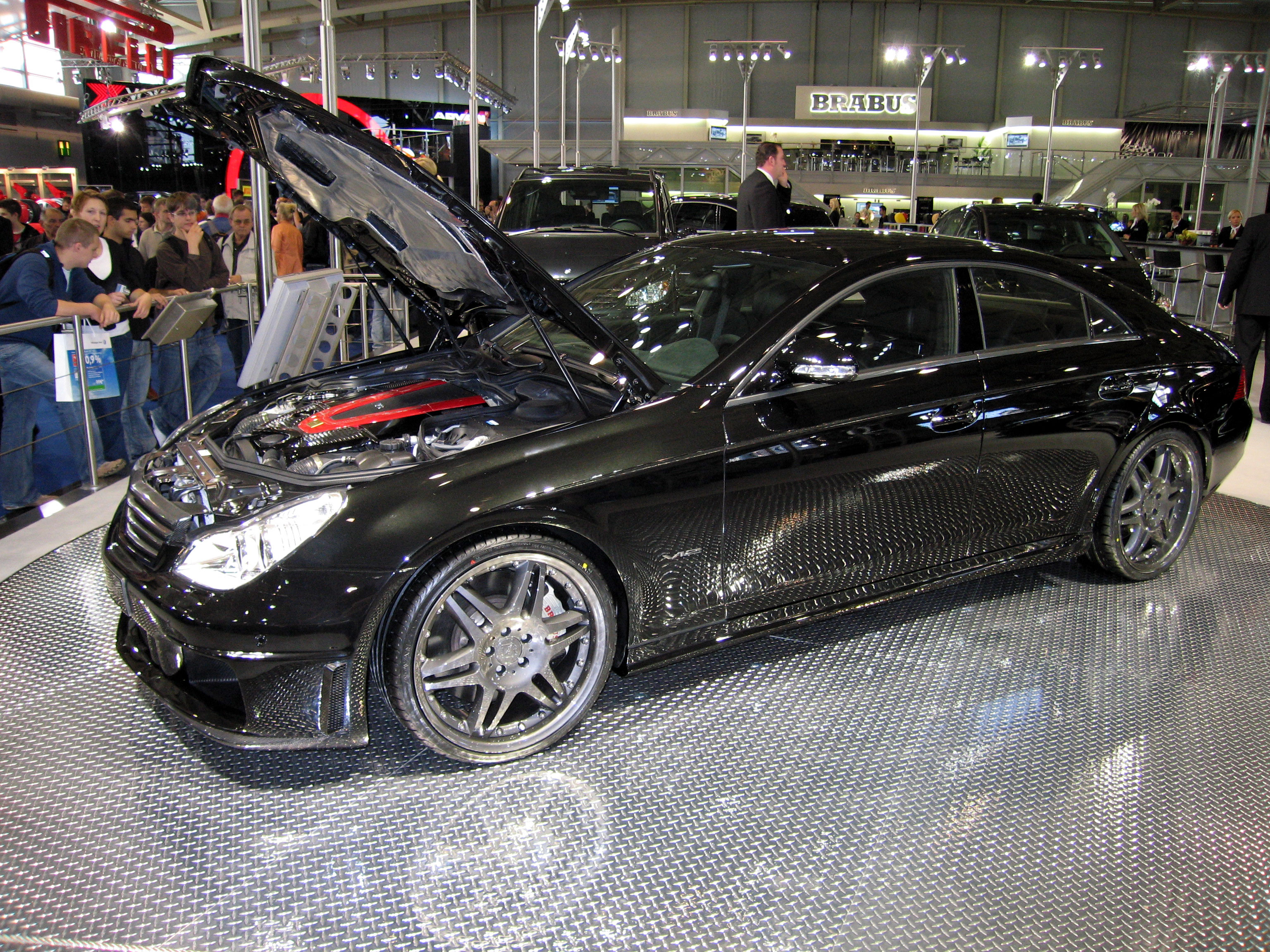 Brabus Rocket at the IAA 2007